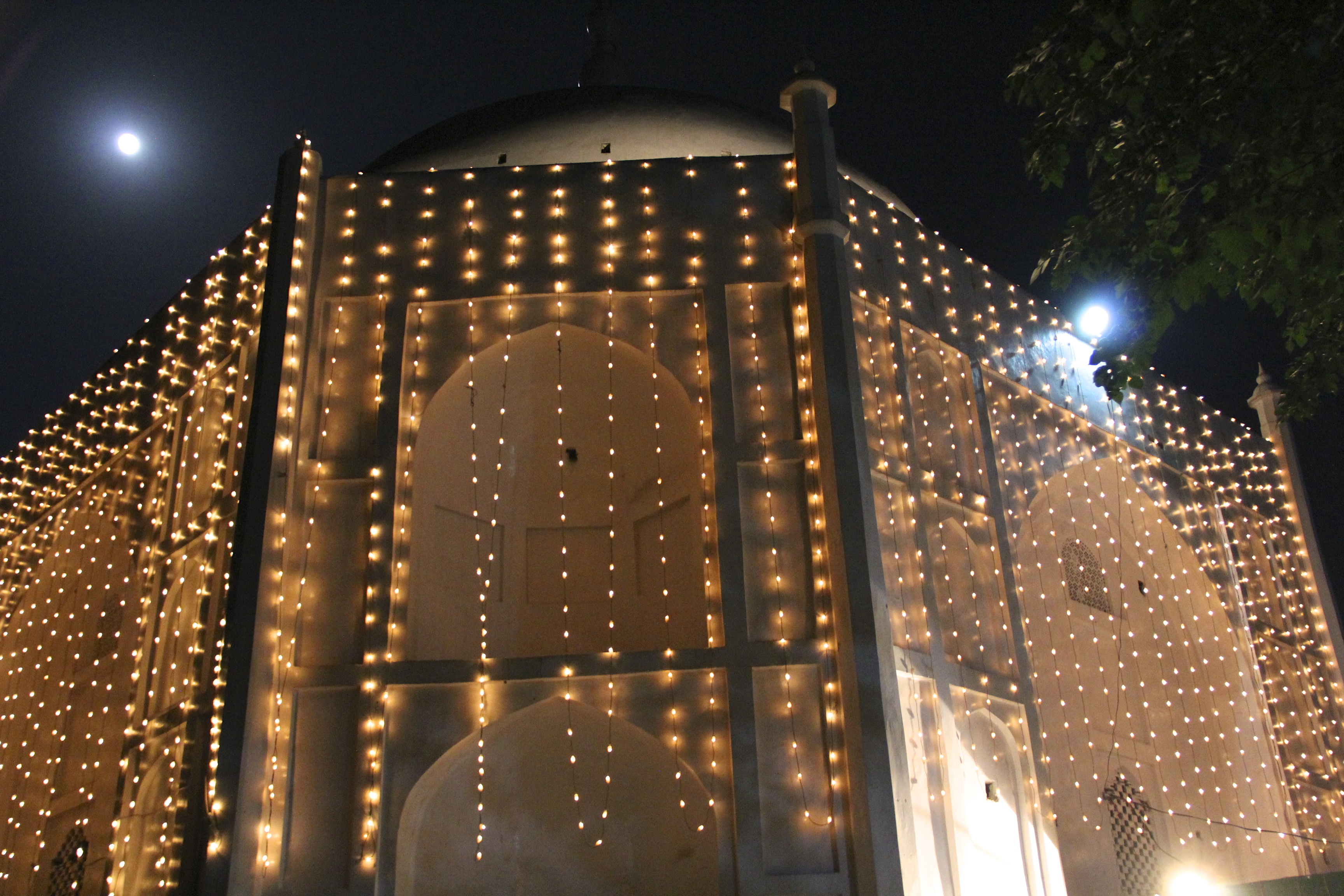 Darbare Hazrat Ishaan after the renovation of his descendant Hazrat Khwaja Sardar Sayyid Mir Sultan Masood Dakik at night